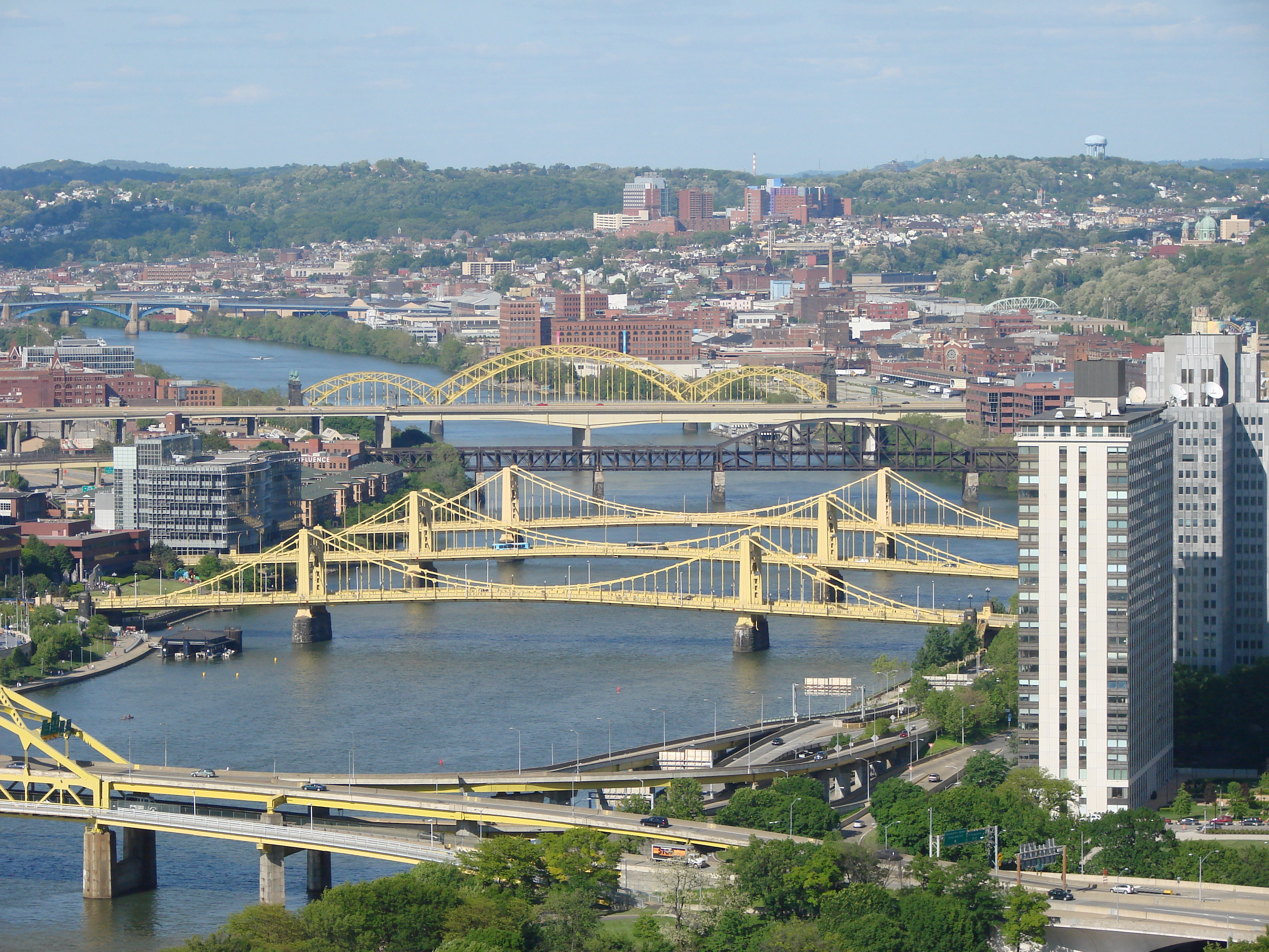 2008-05-25 Pittsburgh 112 The Three Sisters